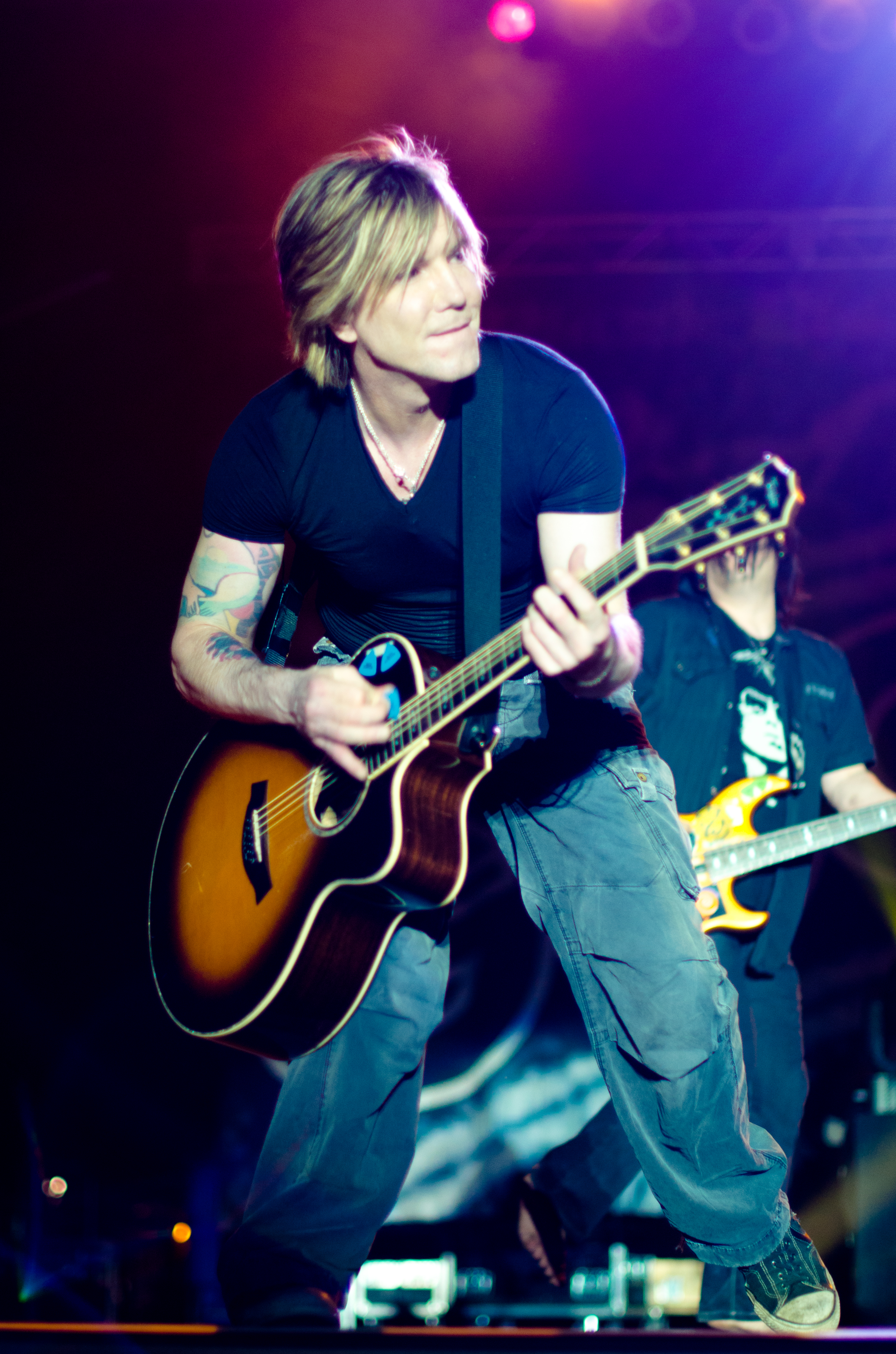 Goo Goo Dolls in Concert at Divots in Norfolk, NE